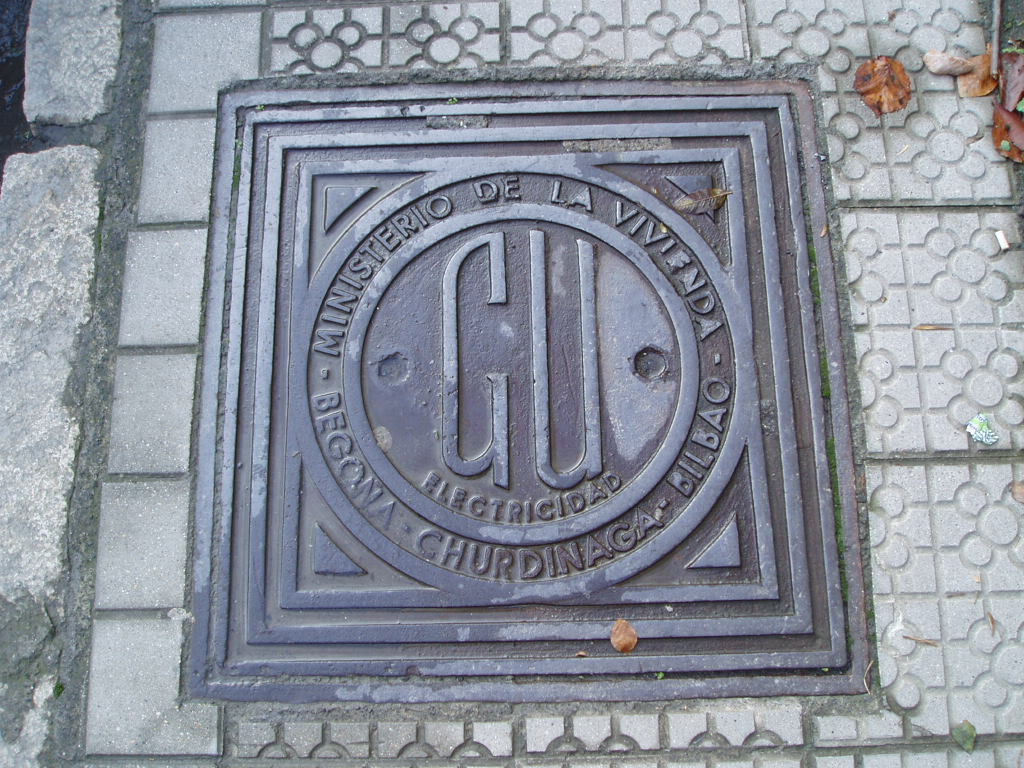 Old manhole cover at Txurdinaga district (Bilbao).